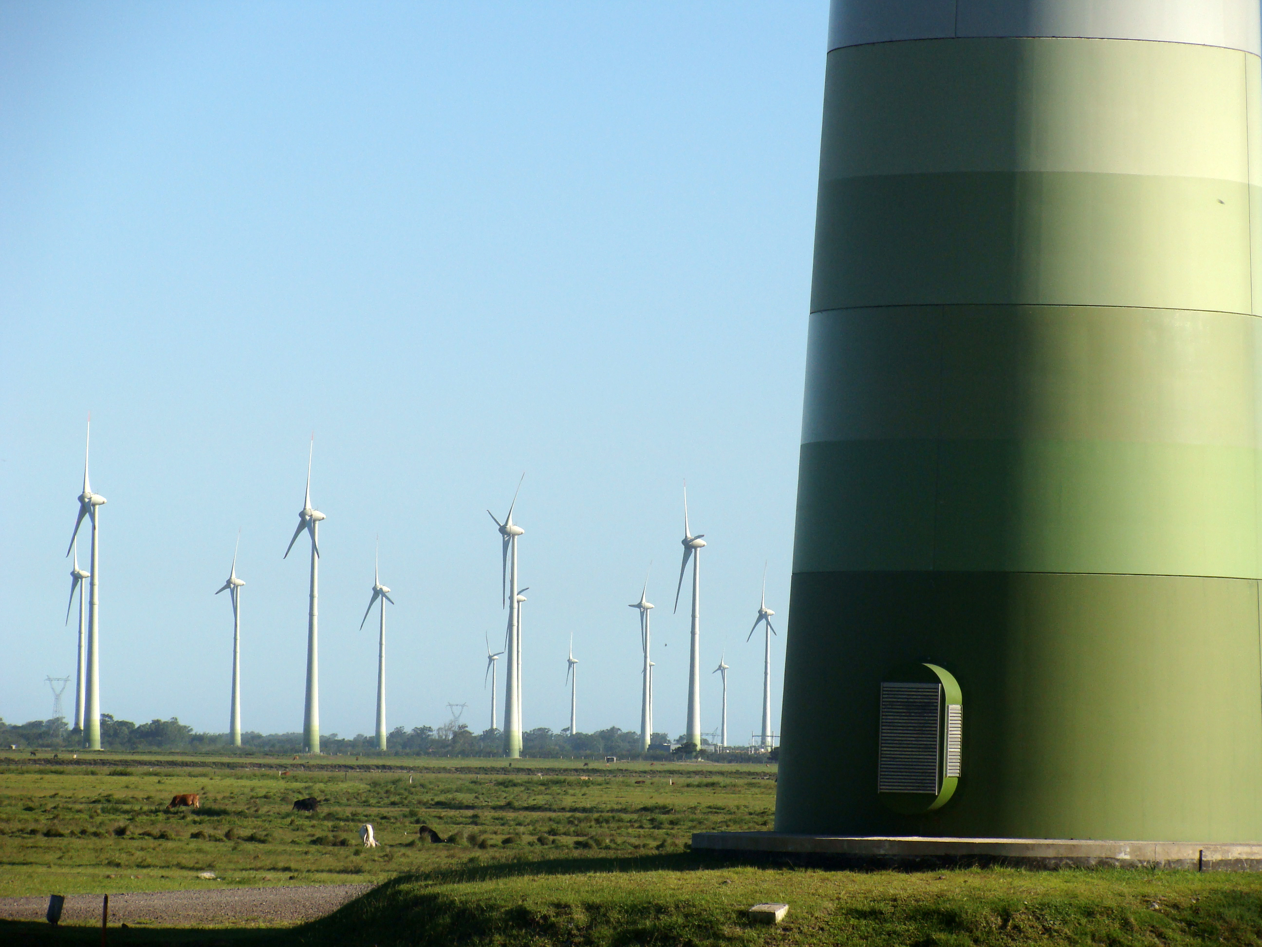 Eolic Park in Osorio, Rio Grande do Sul, Brazil.